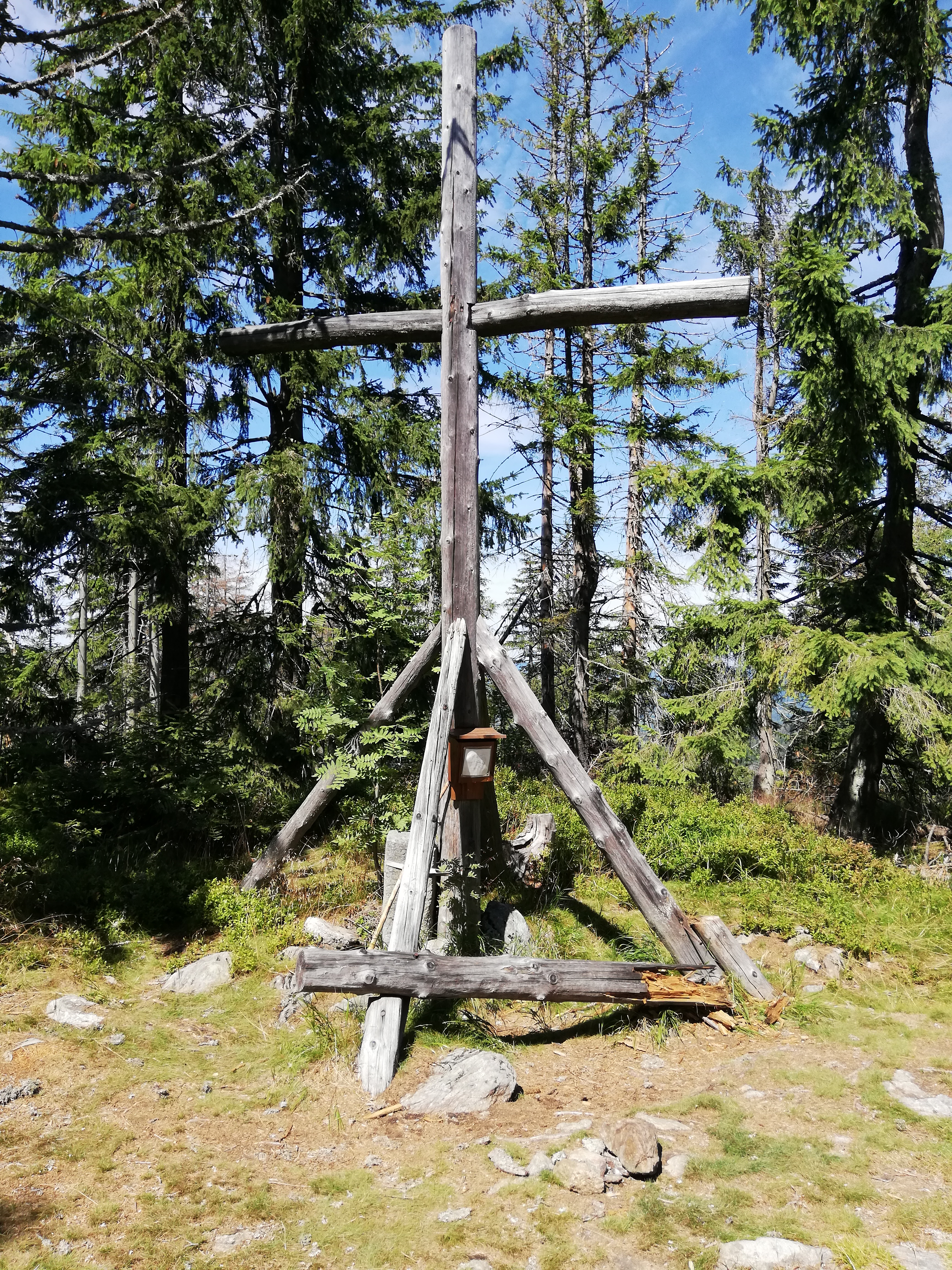 Sokol (also called Antýgl) is a 1253 m high mountain, situated in the Šumava Mountains above Horská Kvilda, Czech Republic. It forms a distinct dominant of the plains near Kvilda, well visible from the Jezerní Slať (Lake Marsh). Photo of a wooden cross (with the book for recording of names of tourists) that is situated on the top of mountain.